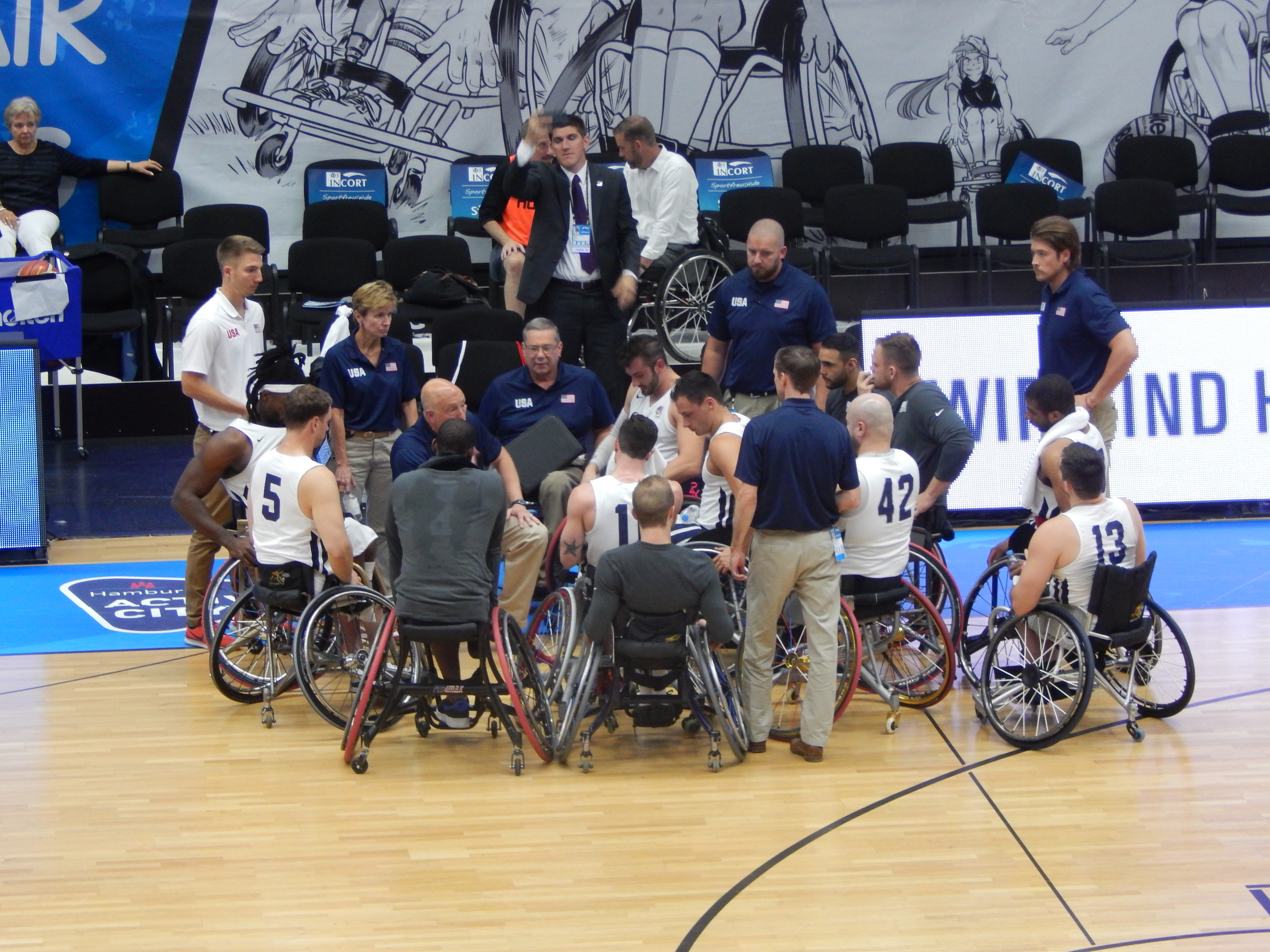 Team USA at Hamburg 2018